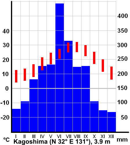 Climate diagram of Kagoshima, Japan. Map based Image:ClimateTemplate.PNG Source:JMA data